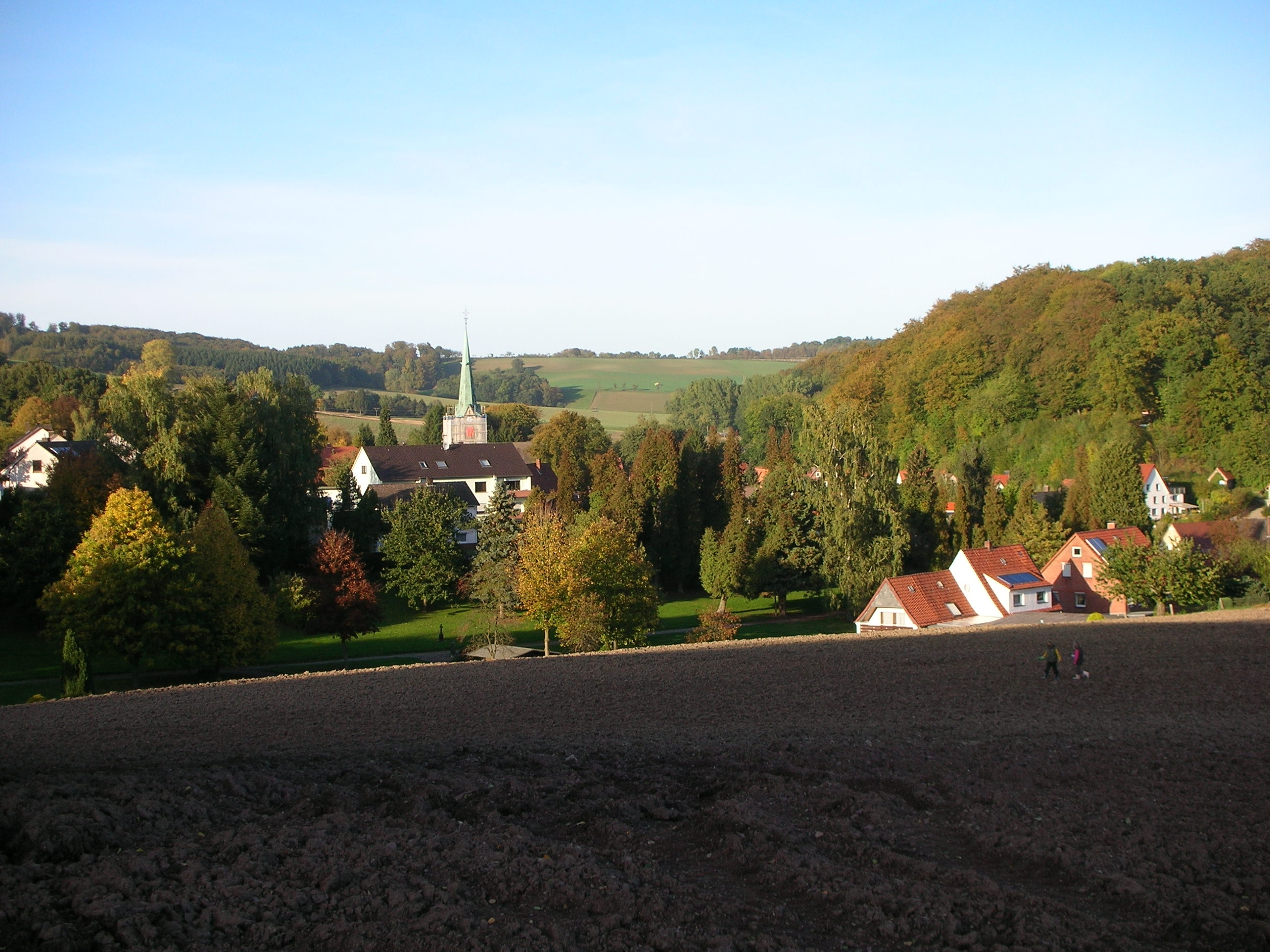 The village Hillentrup in the nothern Lippe Uplands is a part of the municipality Dörentrup.